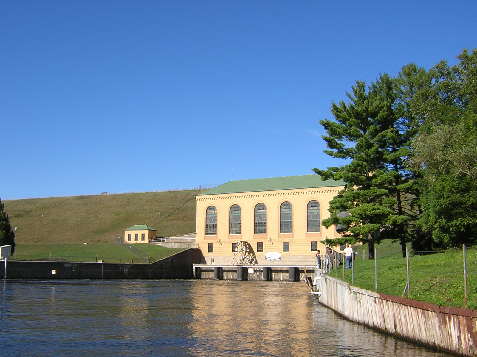 A view of the Hardy Dam, a dam and powerplant complex, built 1931, on the Muskegon River in Big Prairie Township, Newaygo County, Michigan. This image is from location B on the locator map, looking at the powerhouse outlets and the outflow from the turbines into the river. The Croton Dam pond reaches all the way to this dam, there is no natural river flow here. The crane is used to raise and lower control gates for maintenance.